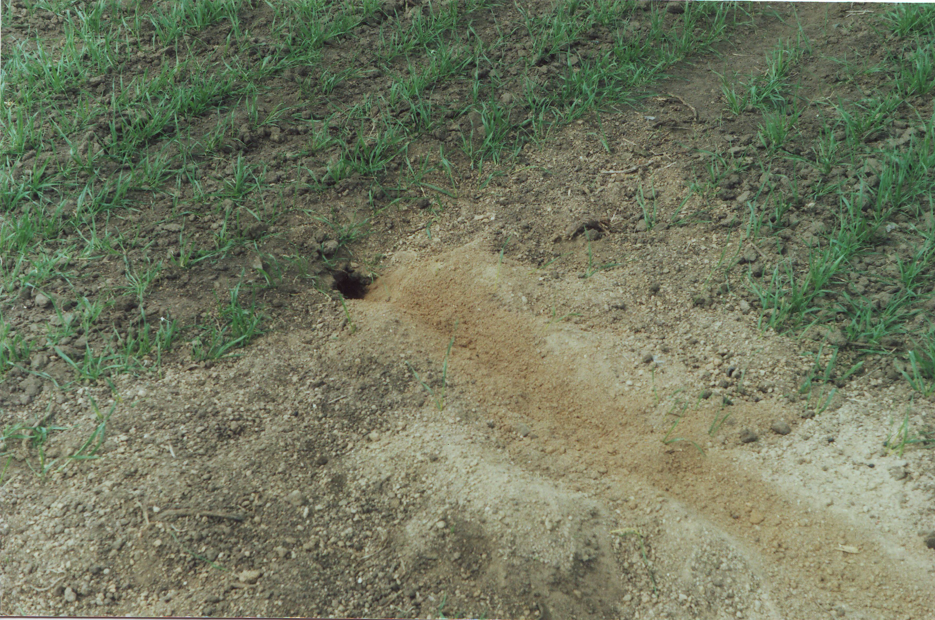 Speckled ground squirrel burrow. Odesa oblast, Ukraine.